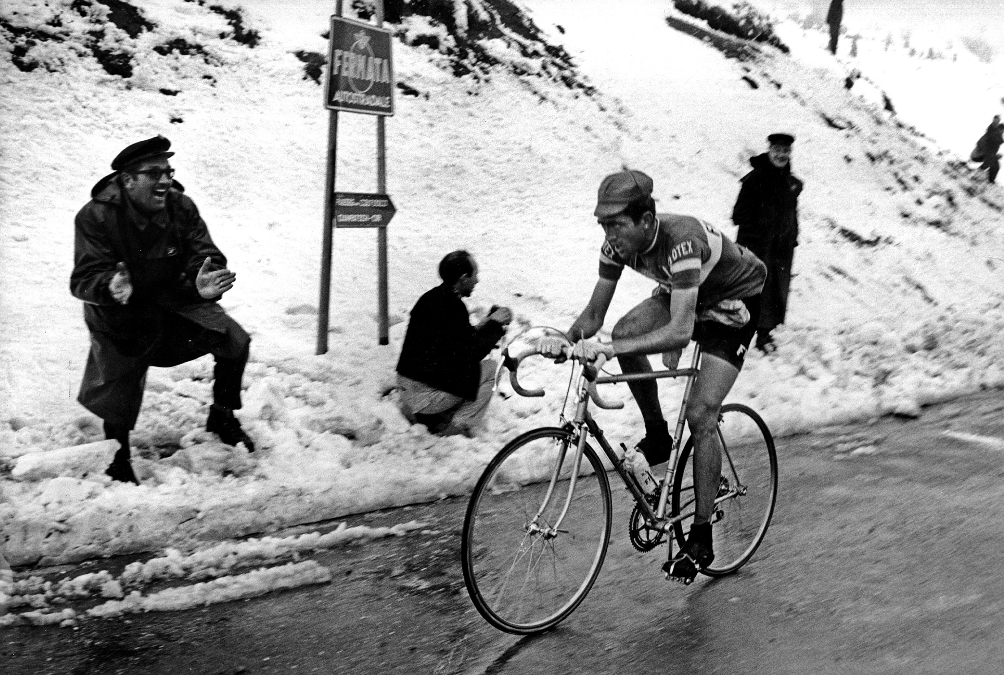 The Italian racing cyclist Italo Zilioli cycling during the stage of the Giro d'Italia Trento-Marmolada.